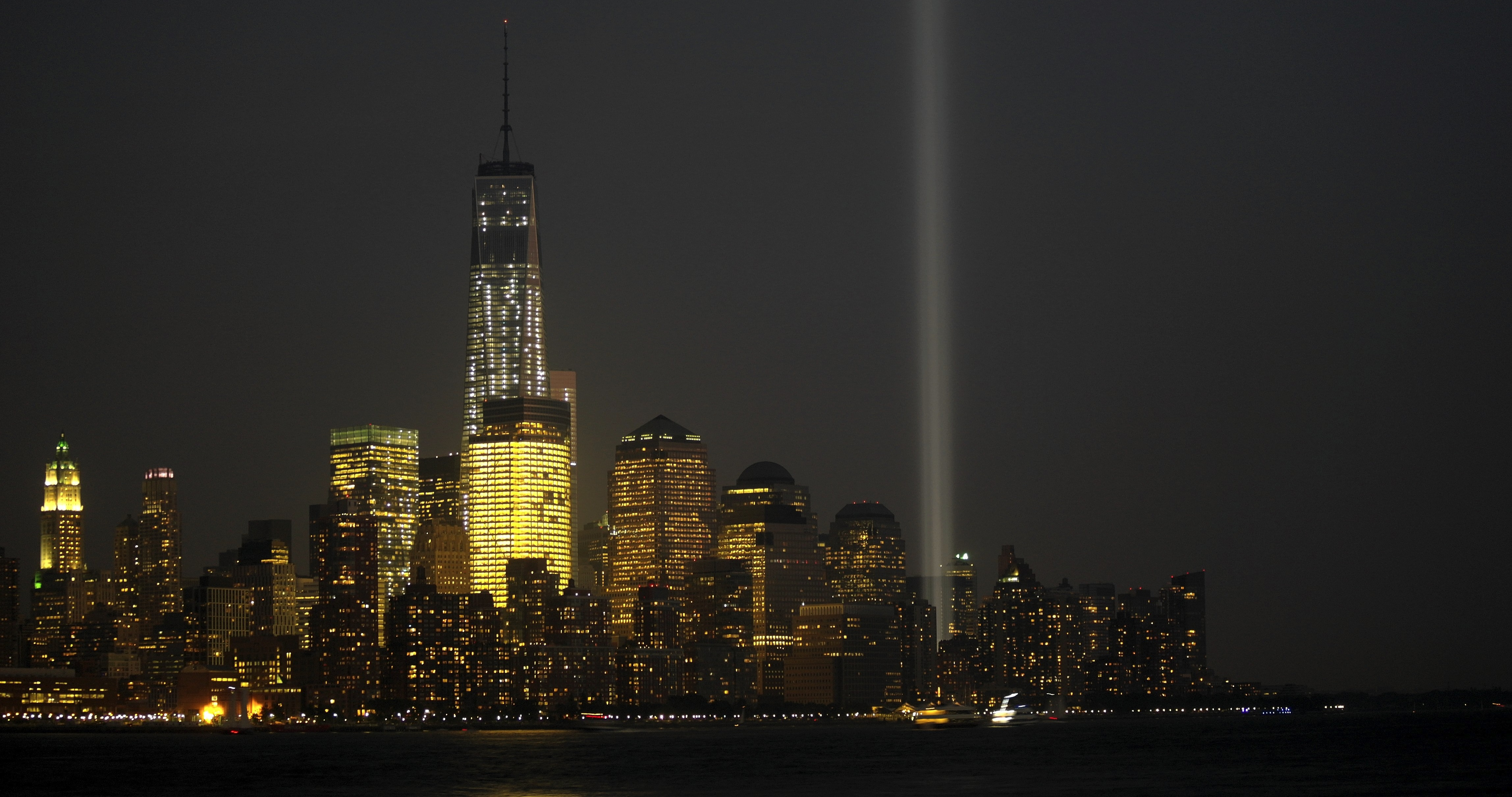 Tribute in Light at 1 WTC in New York, New York, in 2013